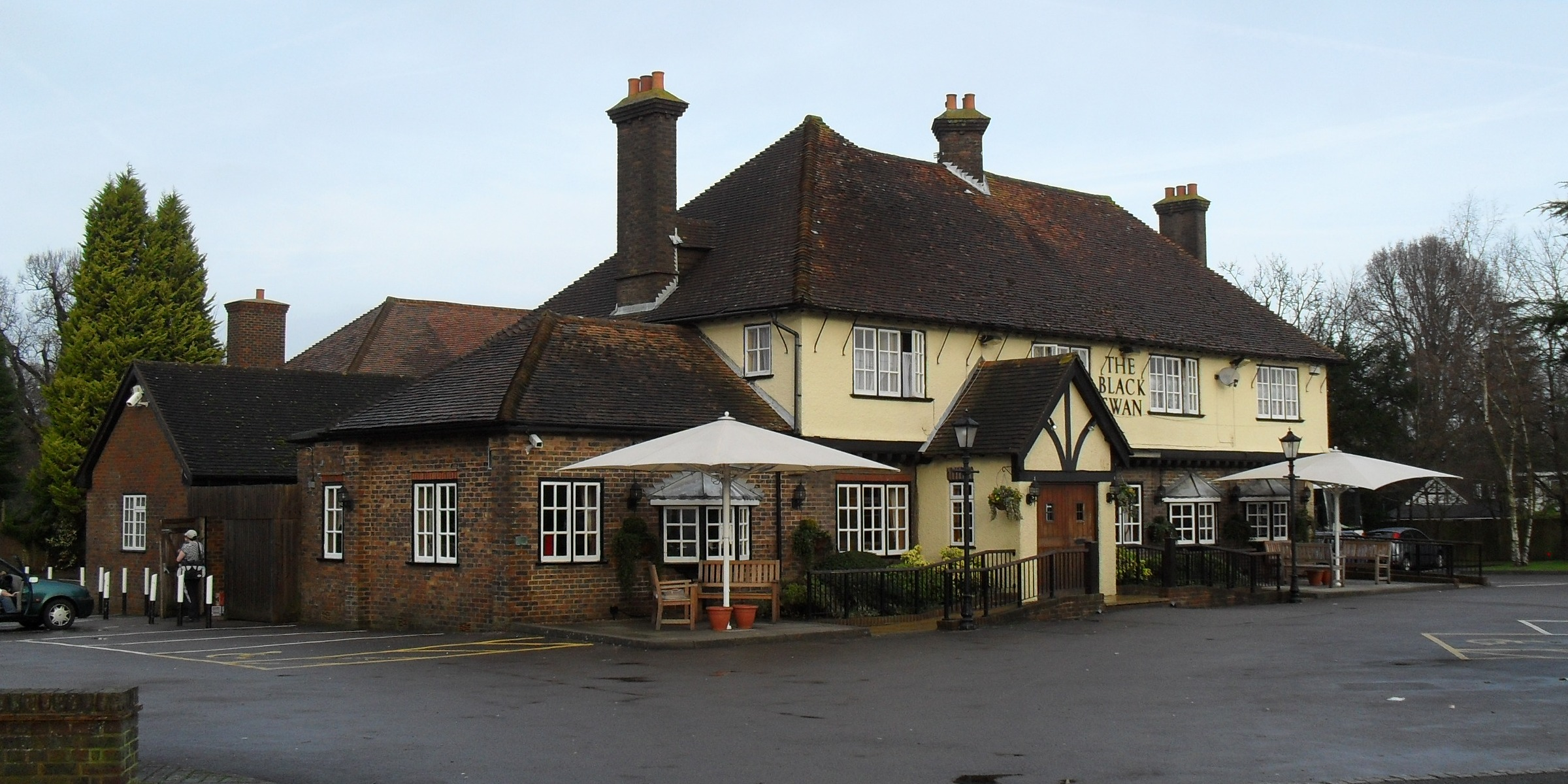 The Black Swan, Old Brighton Road South, Pease Pottage, Mid Sussex District, West Sussex, England.